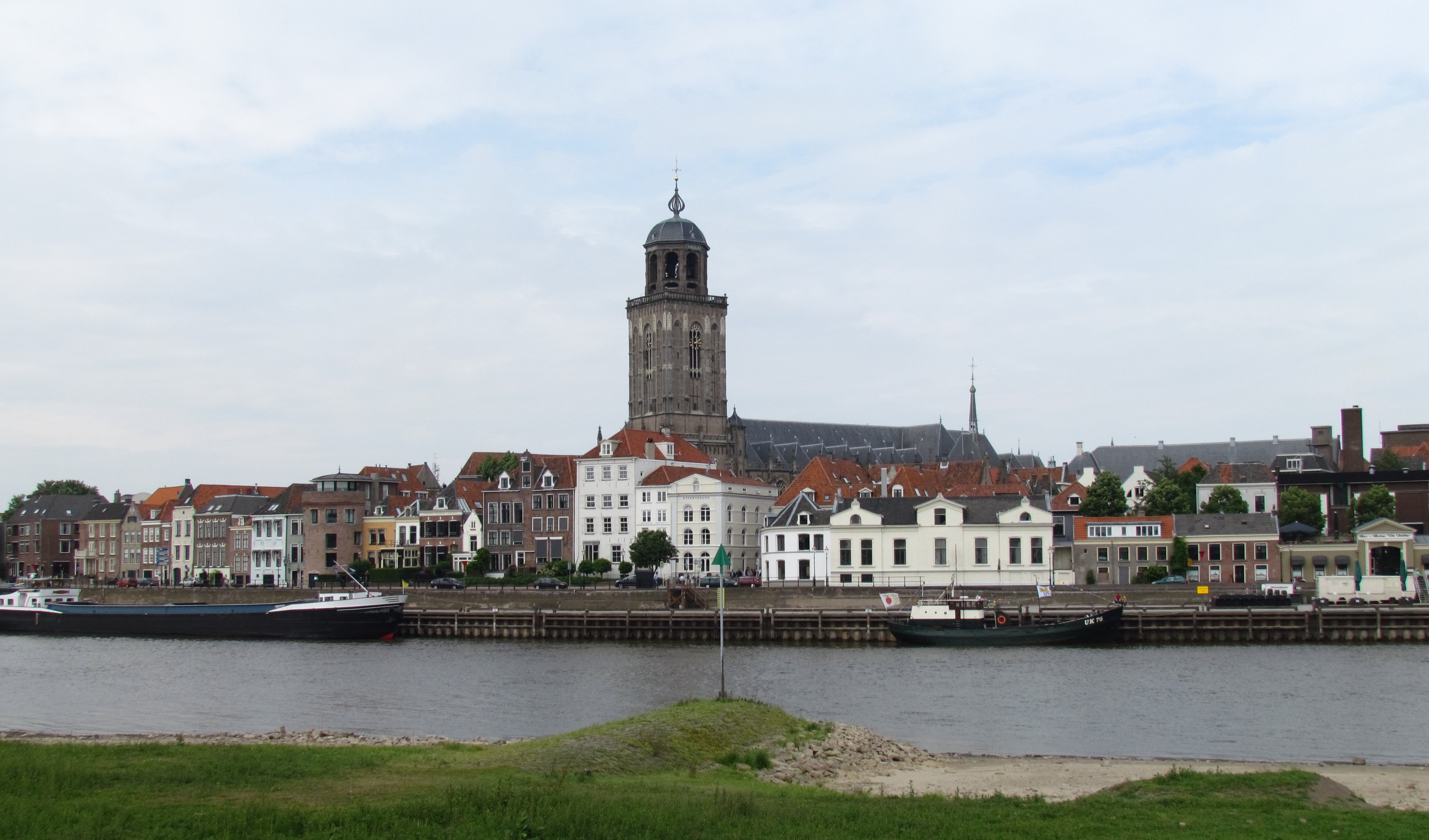 Quay at the IJssel river in the old city centre of Deventer, NL, with the Lebuinus Church tower